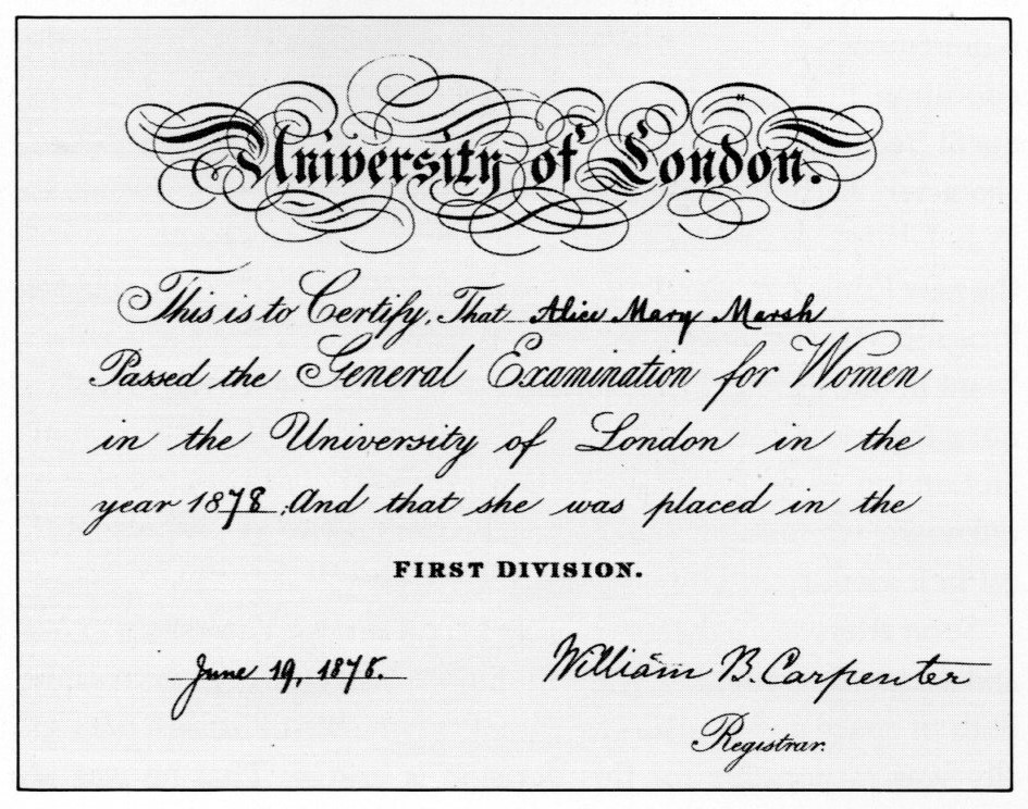 Alice Mary Marsh University of London General Examination for Women certificate 1878